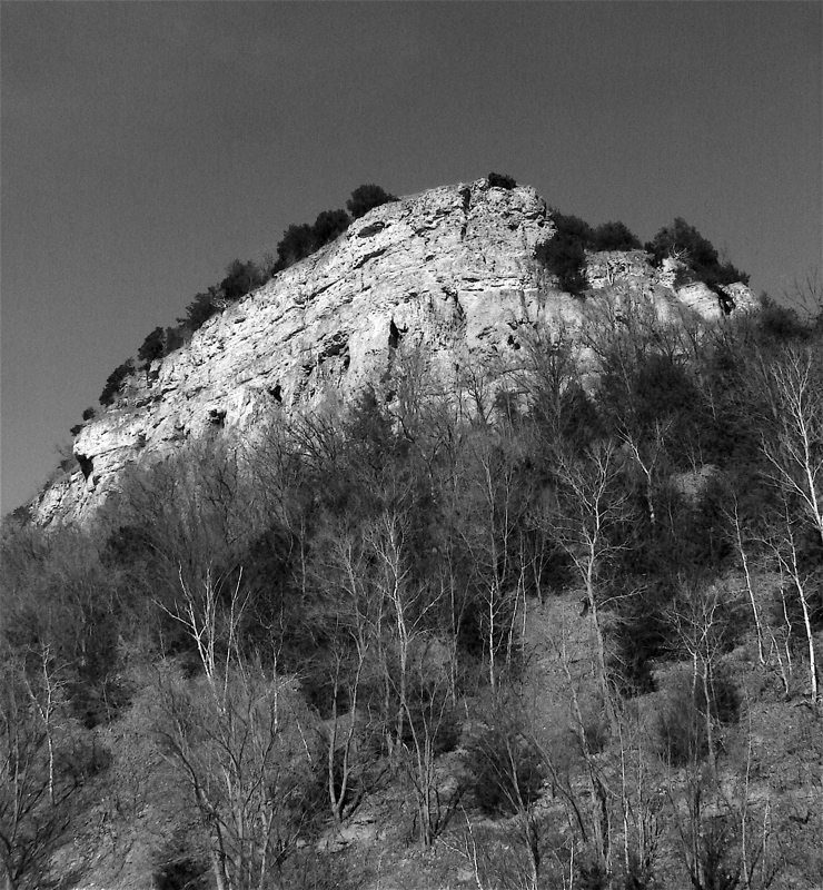 Maiden Rock, WI